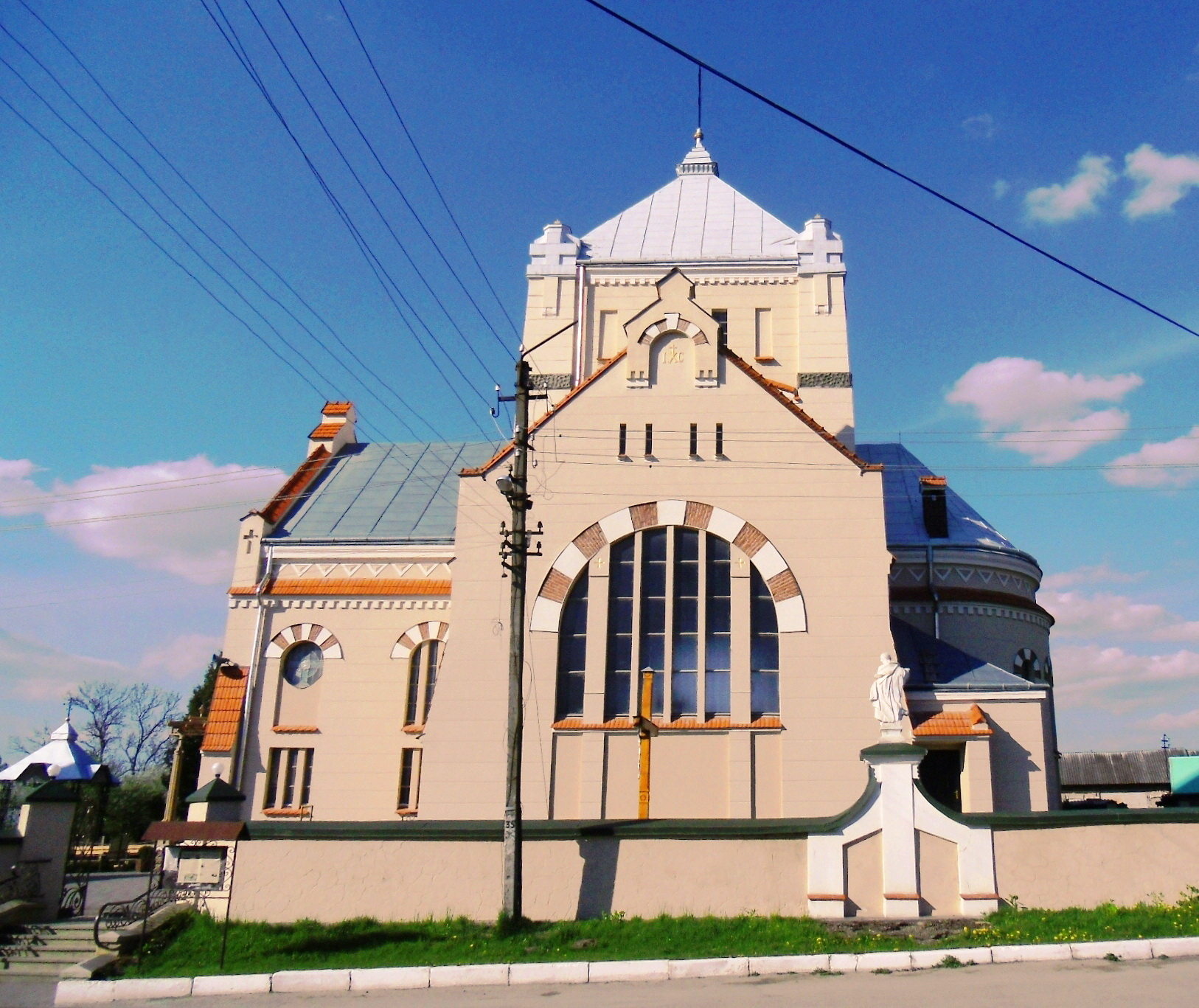 St. Demetrius church (Obroshyne village, Lviv region) 1914. Architects - Alexander Lushpynsky and Tadeusz Obminskyy.